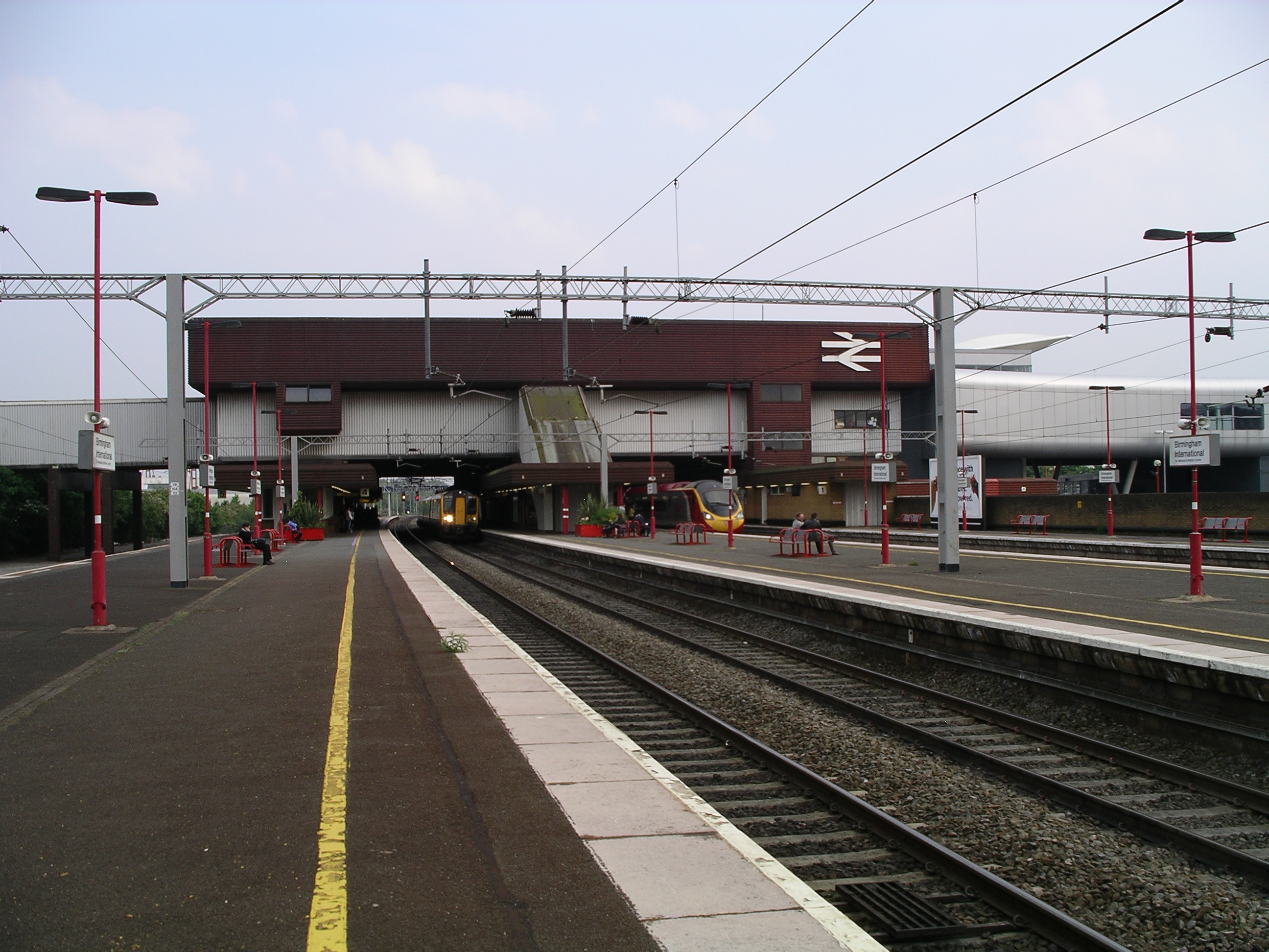 Birmigham International railway station